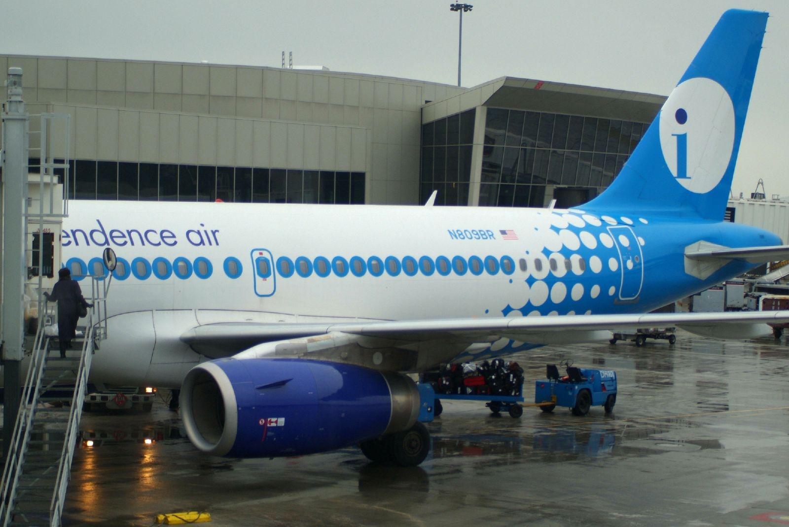 Independence Air A319-132 N809BR at General Edward Lawrence Logan International Airport